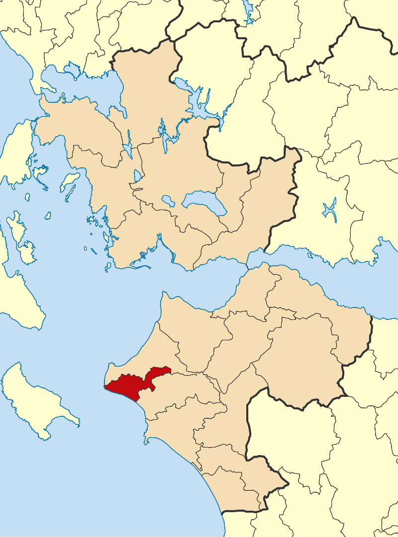 Locator map for Pinios municipality in Greek region Western Greece (2011)